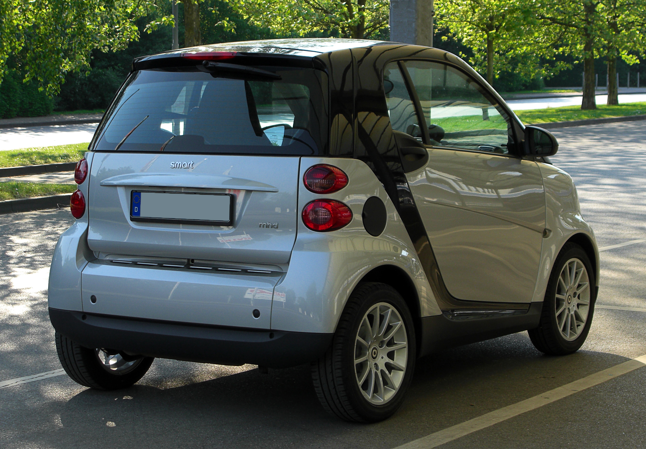 Smart Fortwo Coupé 1.0 mhd Passion (451)